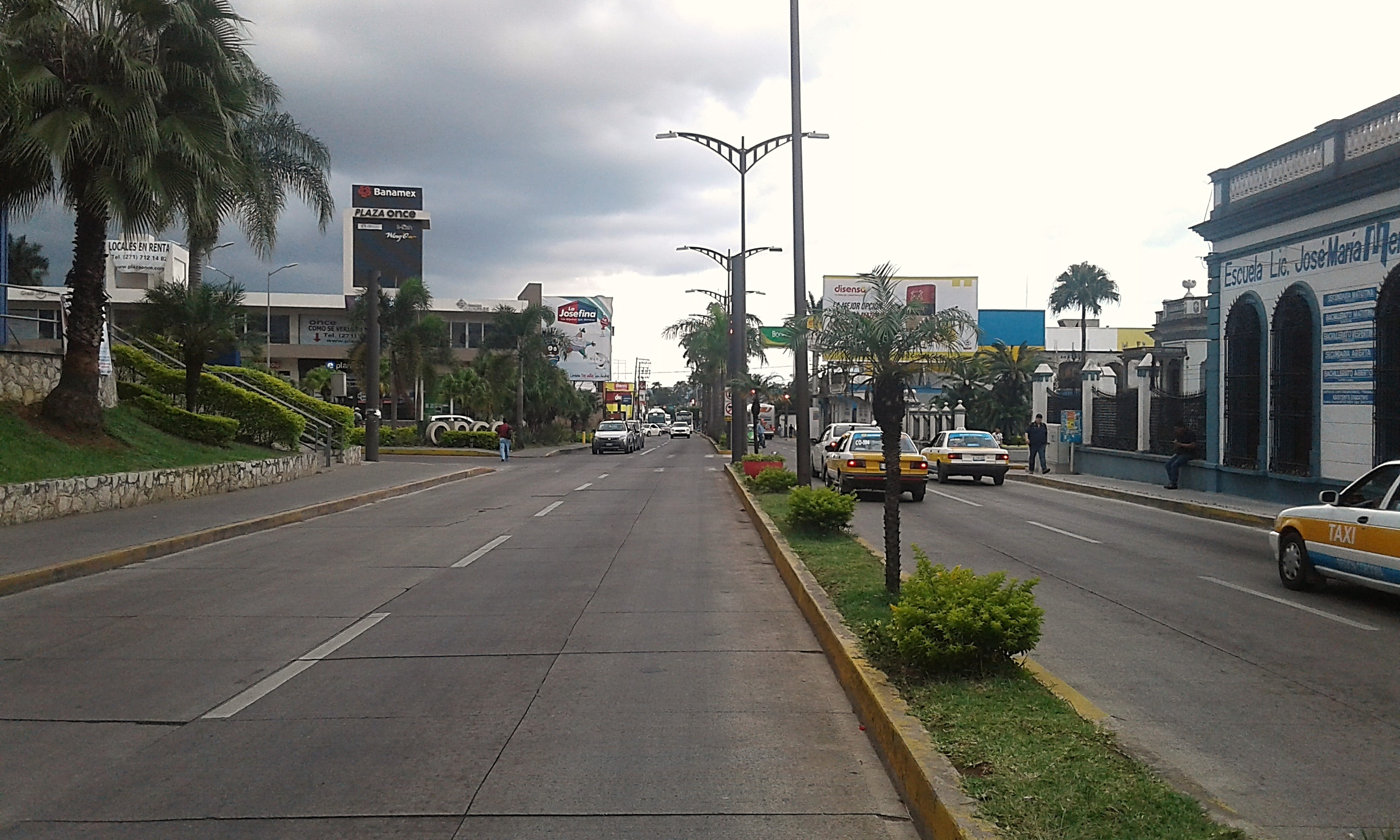 Cordoba veracruz city street